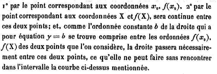 End of the proof of the theorem of intermediate values